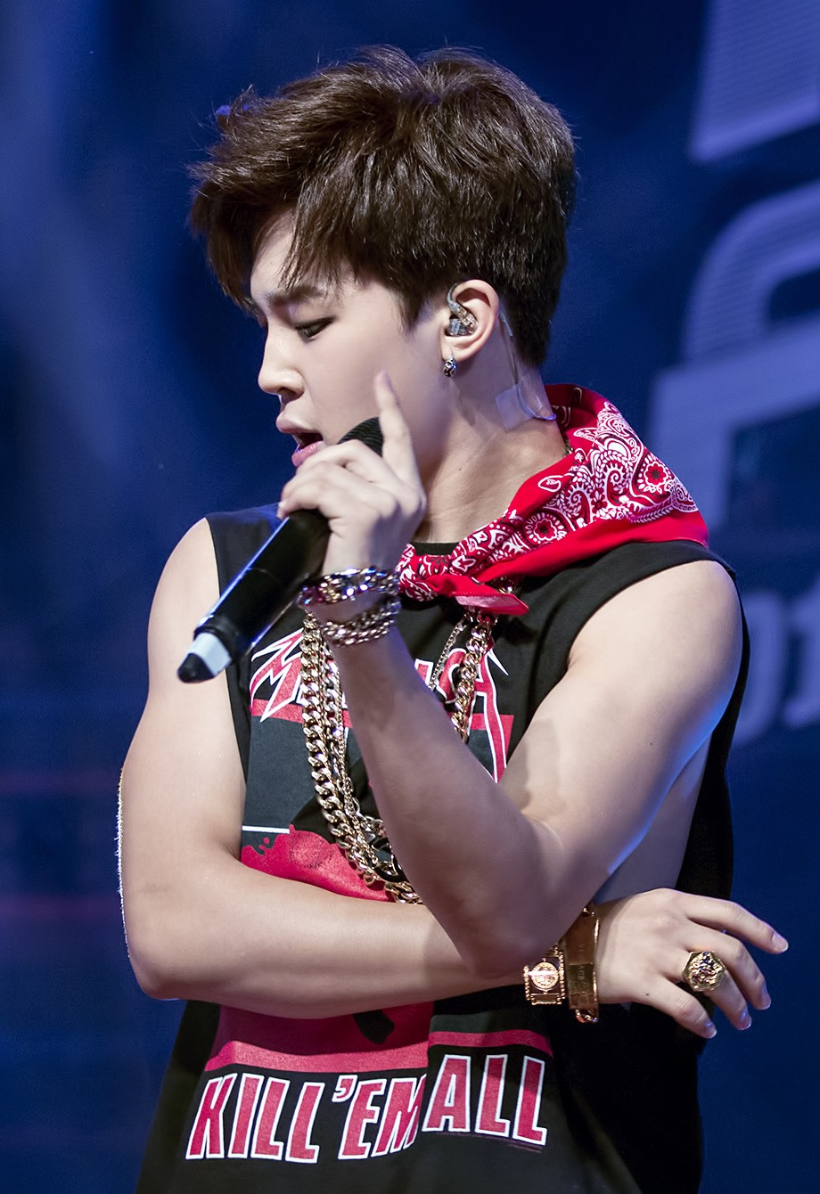 Park Jimin at MAMA in Hong Kong, 3 December 2014